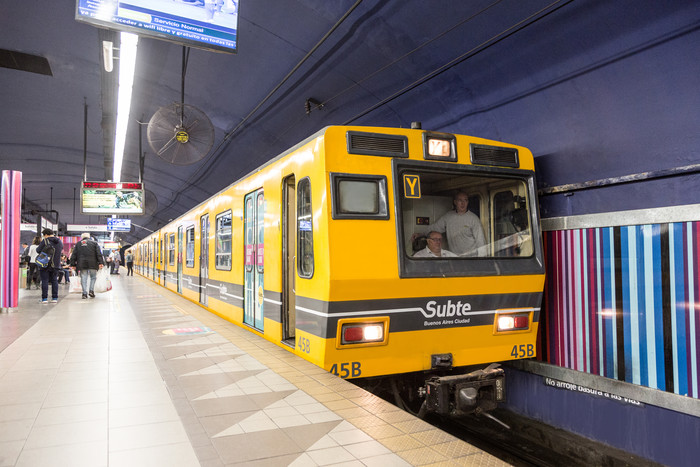 A Fiat Materfer train at the Bolivar station of Line E from the Buenos Aires Underground